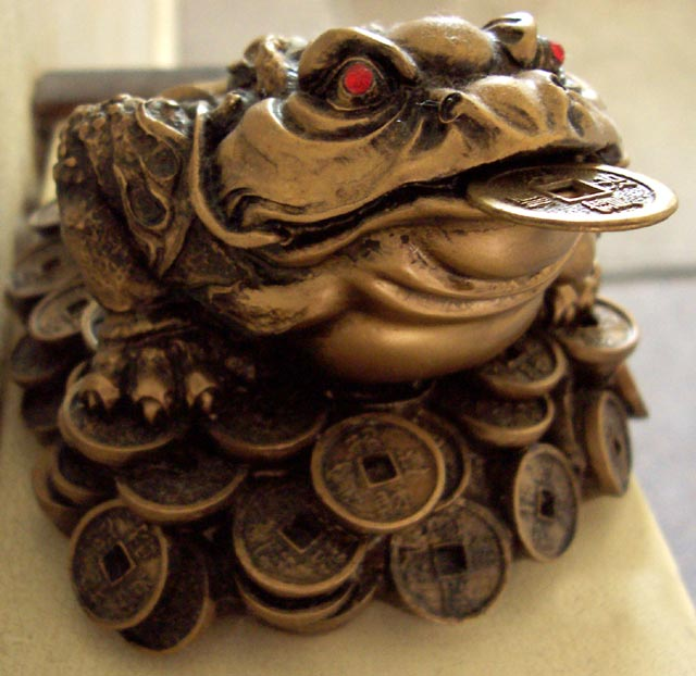 A money frog. Picture taken by me.